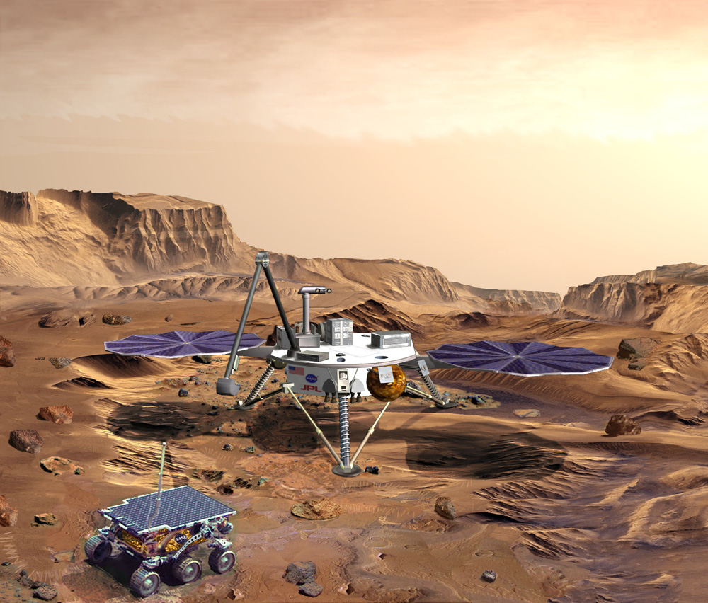 The Mars Surveyor 2001 lander and Marie Curie rover in Valles Marineris. The mission was later cancelled.